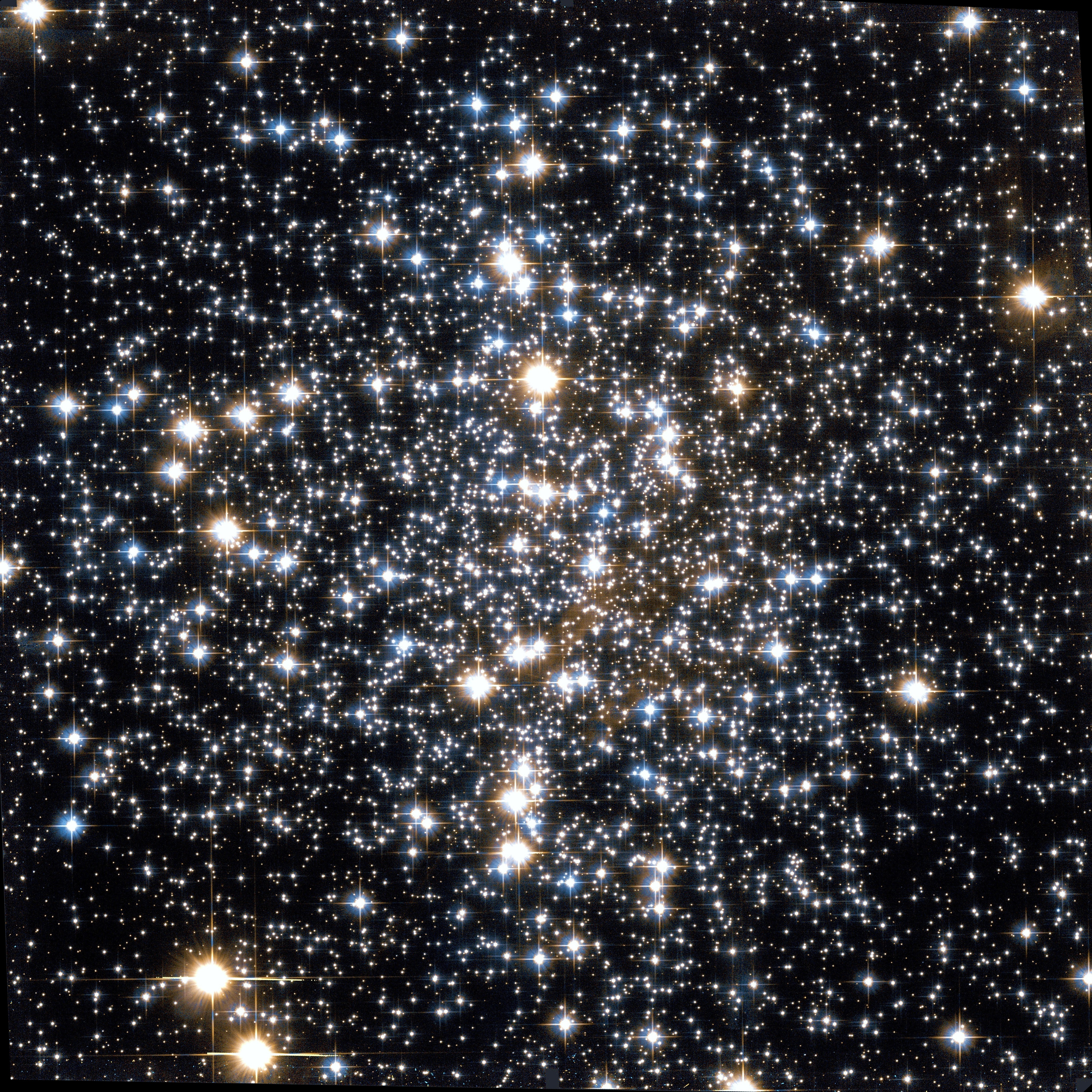 Messier 4 globular cluster by Hubble Space Telescope; 3.5′ view